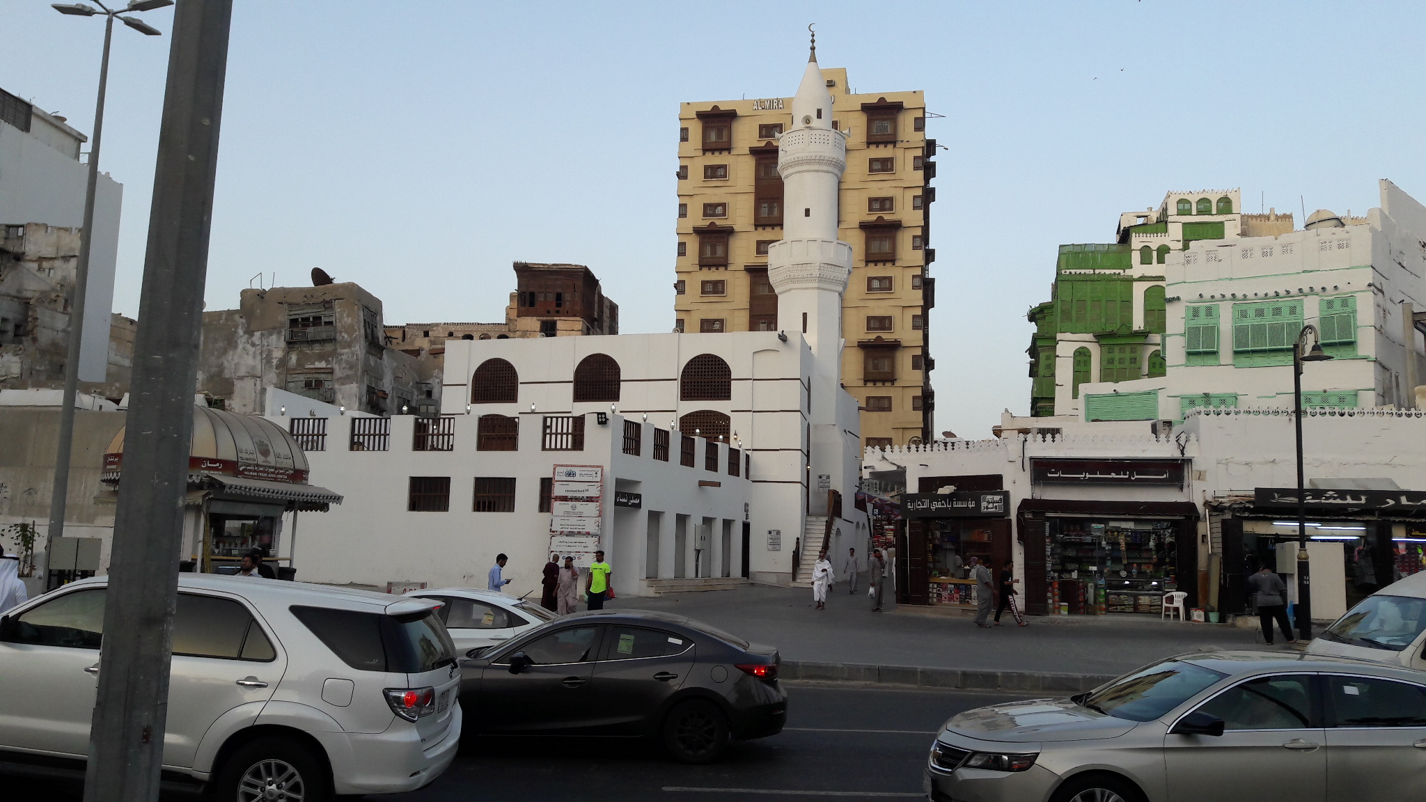 Mimar Mosque, Old Jeddah